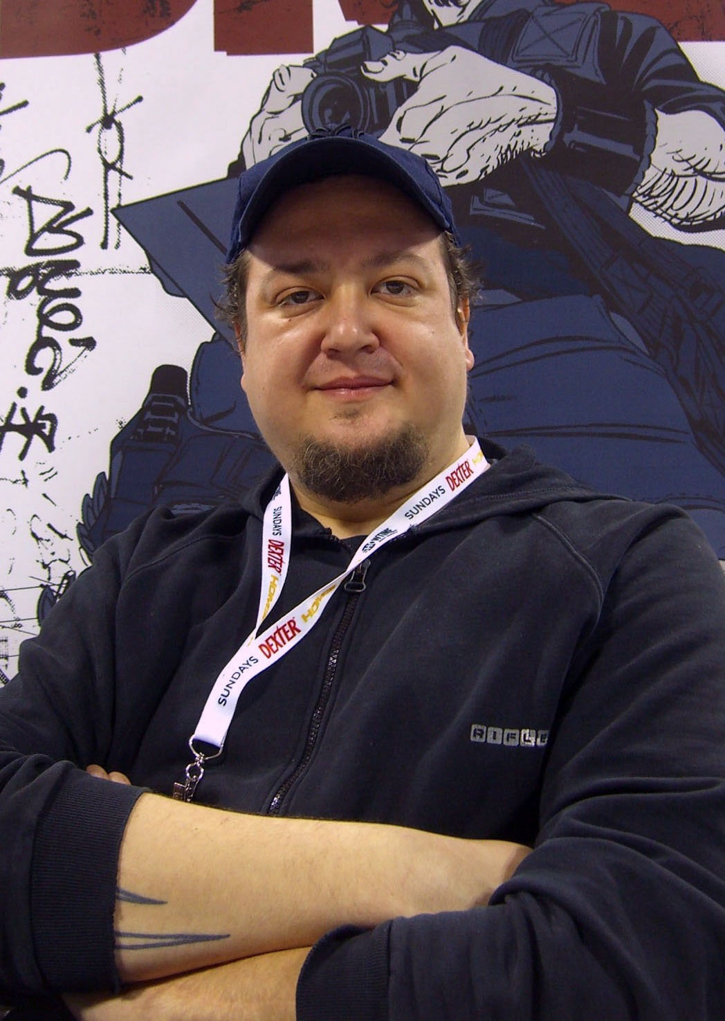 Comics creator Riccardo Burchielli on Day 2 of the 2012 New York Comic Con, Friday October 12, 2012 at the Jacob K. Javits Convention Center in Manhattan. This photo was created by Luigi Novi. It is not in the public domain, and use of this file outside of the licensing terms is a copyright violation.